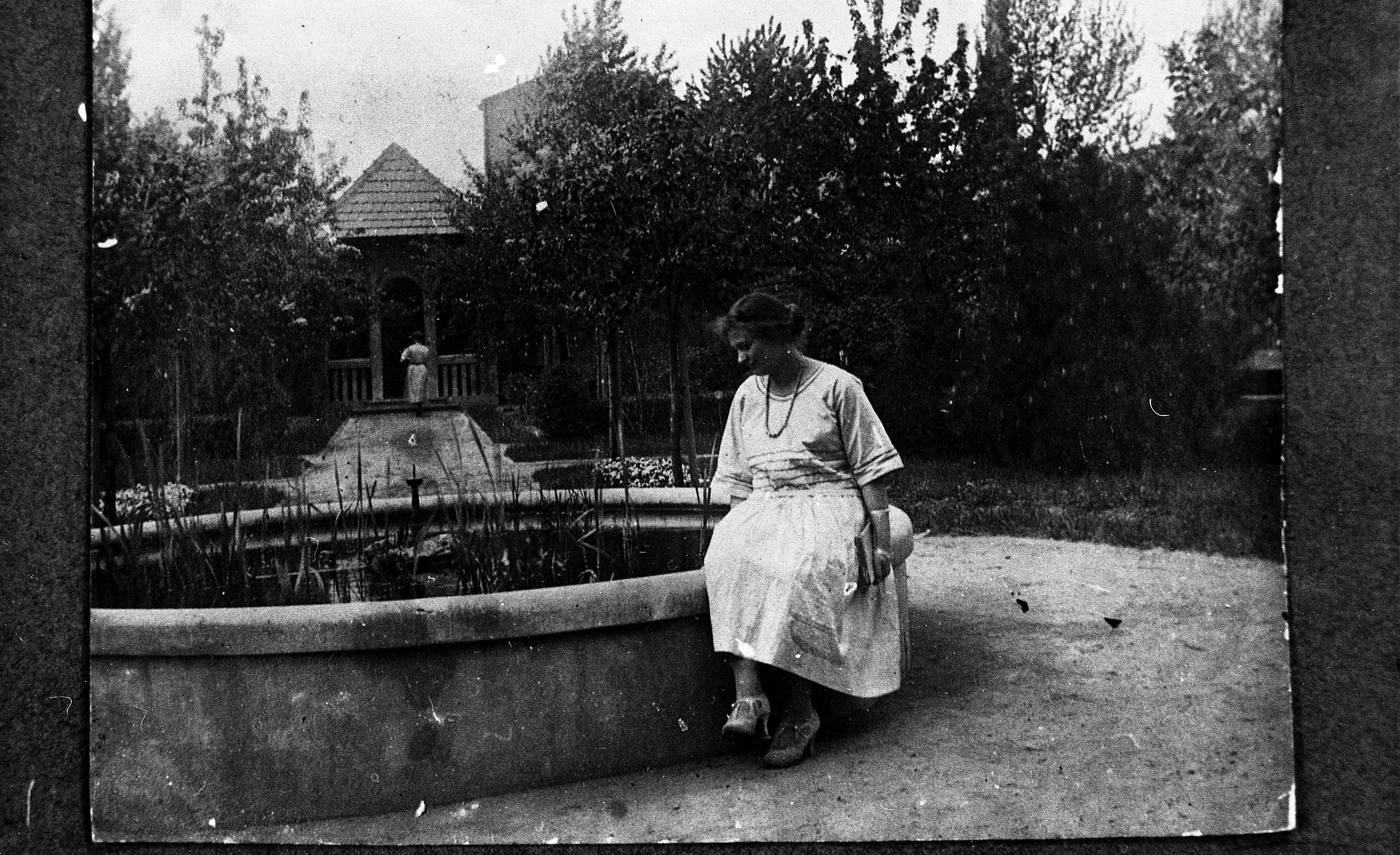 Fontanna ze złotymi rybkami w ogrodzie PIRR-u (przed budynkiem Instytutu w Warszawie przy ul. Górczewskiej 8)